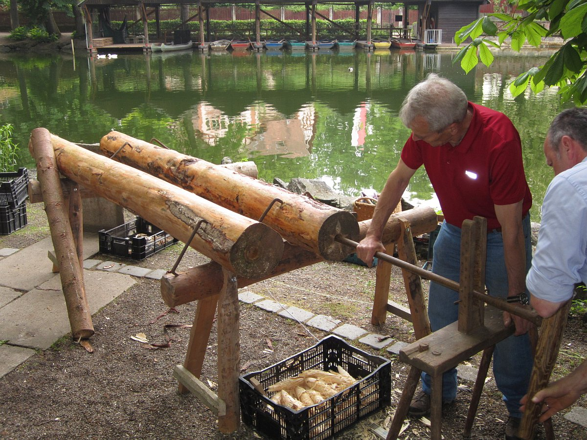 Drilling a wooden water pipe - proceeding